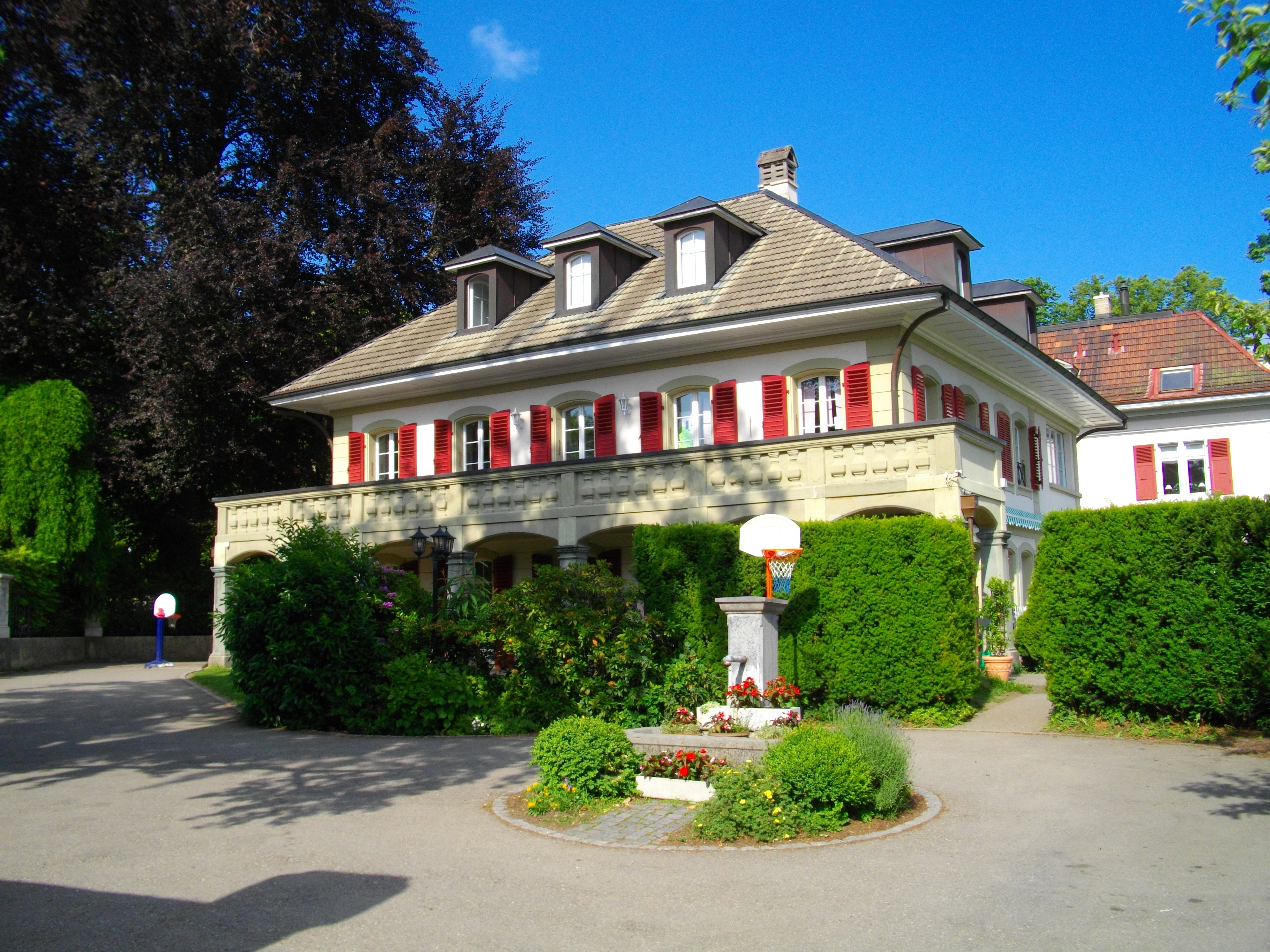 British School Bern in Gümligen, which is now relocated to Rüfenacht